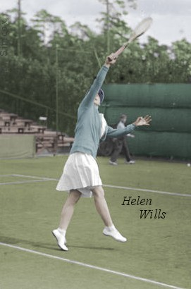 Helen Wills historical tennis photo